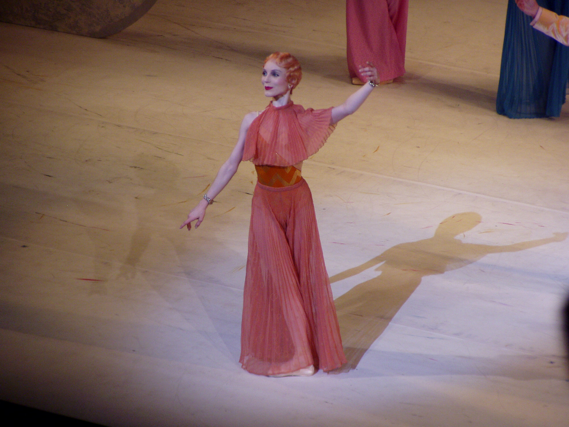 Sarah Lamb at the end of La Fin du Jour, Royal Ballet, London, May 2007. Scillystuff